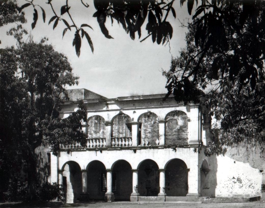 Esta es la foto de la casa del administrador